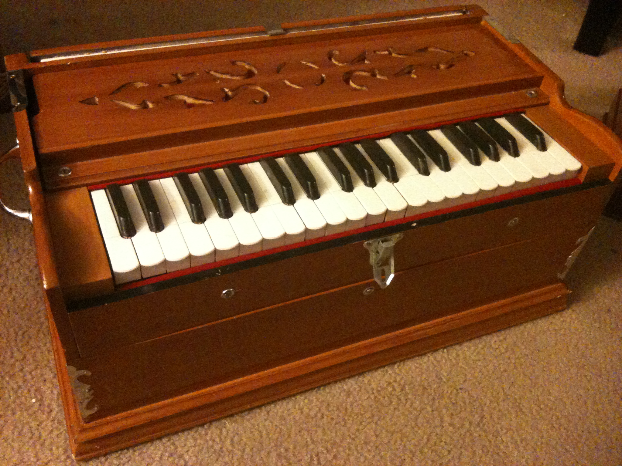 This is a typical Qawwali style harmonium made in Lahore Pakistan. Features two banks of German Jubilate Harmonium reeds in Bass/Male configuration, a right upper action octave coupler that is permanently engaged and no air stops. Typical simple model with very strong and loud great quality tone.